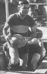 Pedro Arico Suárez, former player of Ferro Carril Oeste and Boca Juniors.